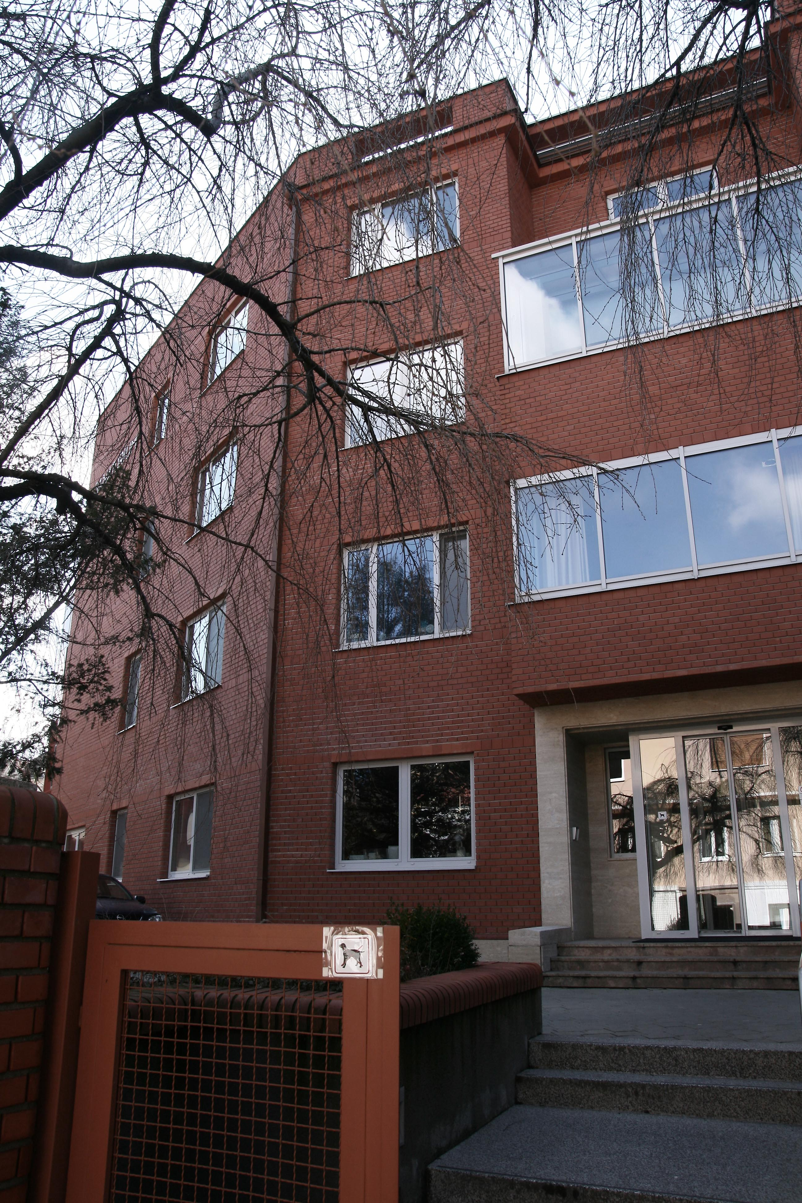 Koch's Nursing-home, Bratislava, Slovakia. Autors: Dušan Jurkovič, Jindřich Merganc, Otmar Klimeš; 1928-1930.